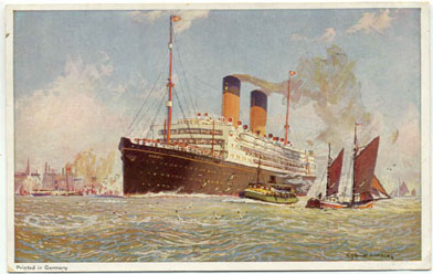 The SS Arabic.